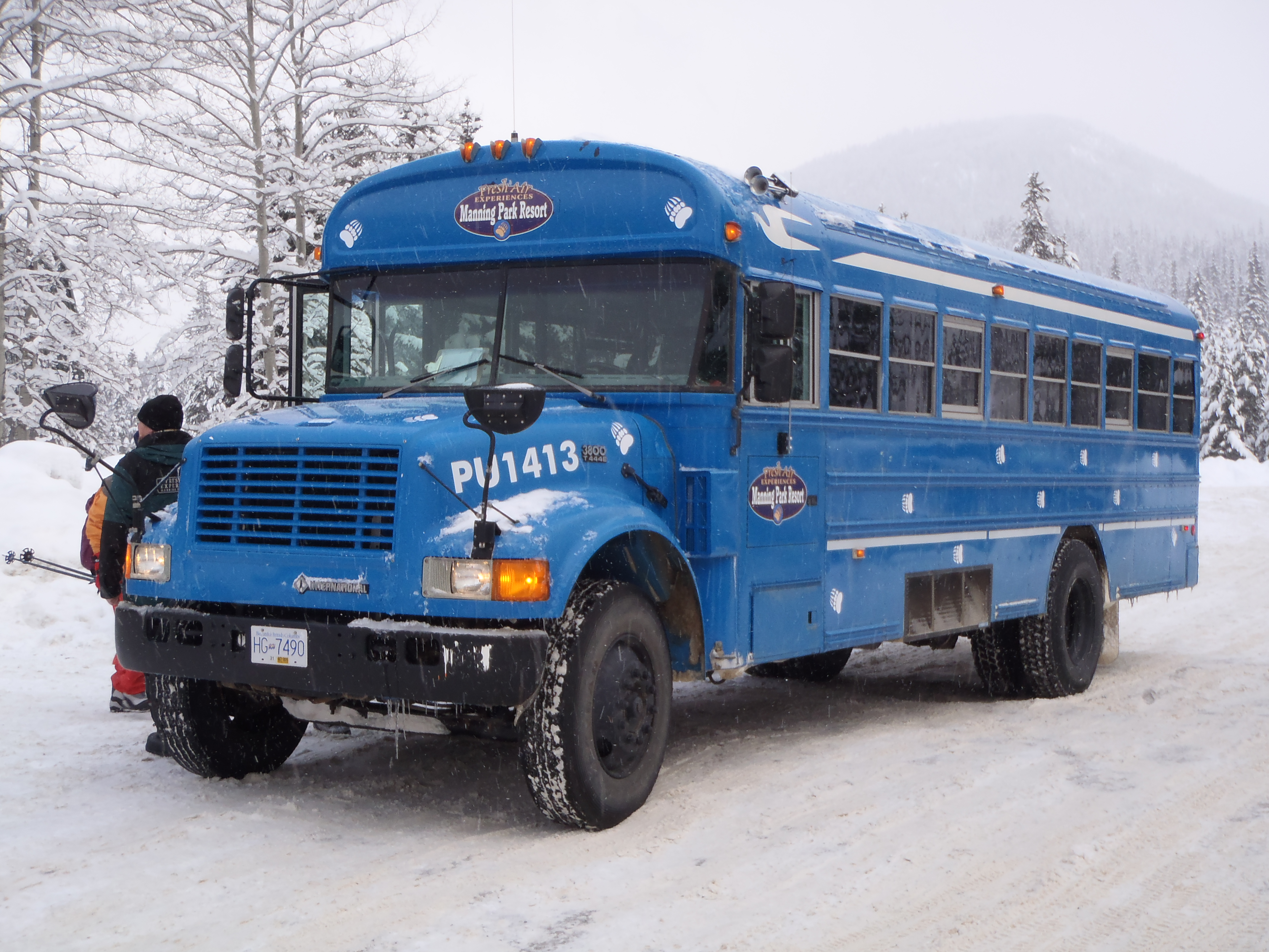 Free shuttle from Gibson Pass Ski Area to Manning Park lodge.